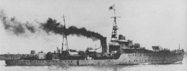 Japanese Gunboat "Uji" at Yantze River.